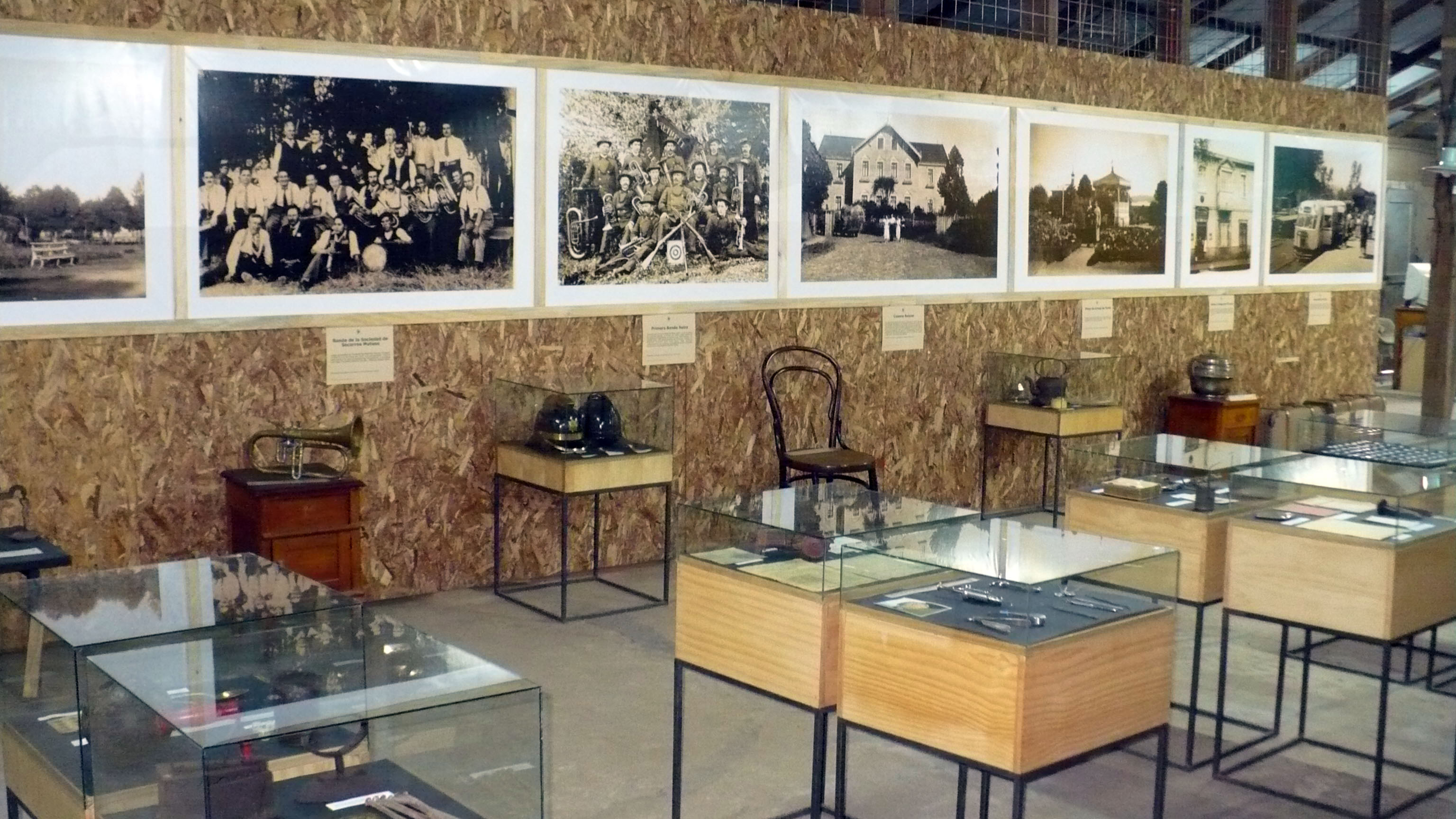 Museo Historico de Purén- Agrupación Cultural Purén Indómito